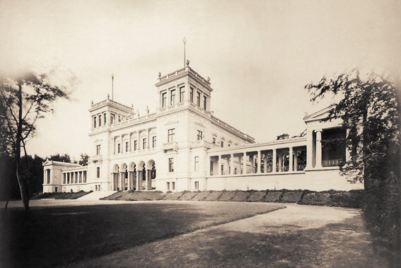 Dwasieden Palace near Sassnitz on island Rügen shortly upon completion in the year 1877